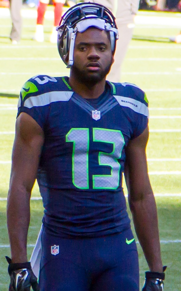 49ers at Seahawks 2014